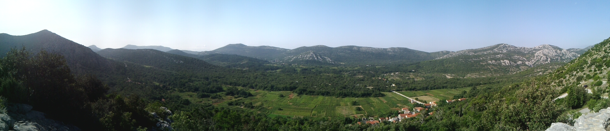 Panorama of Oskorušno